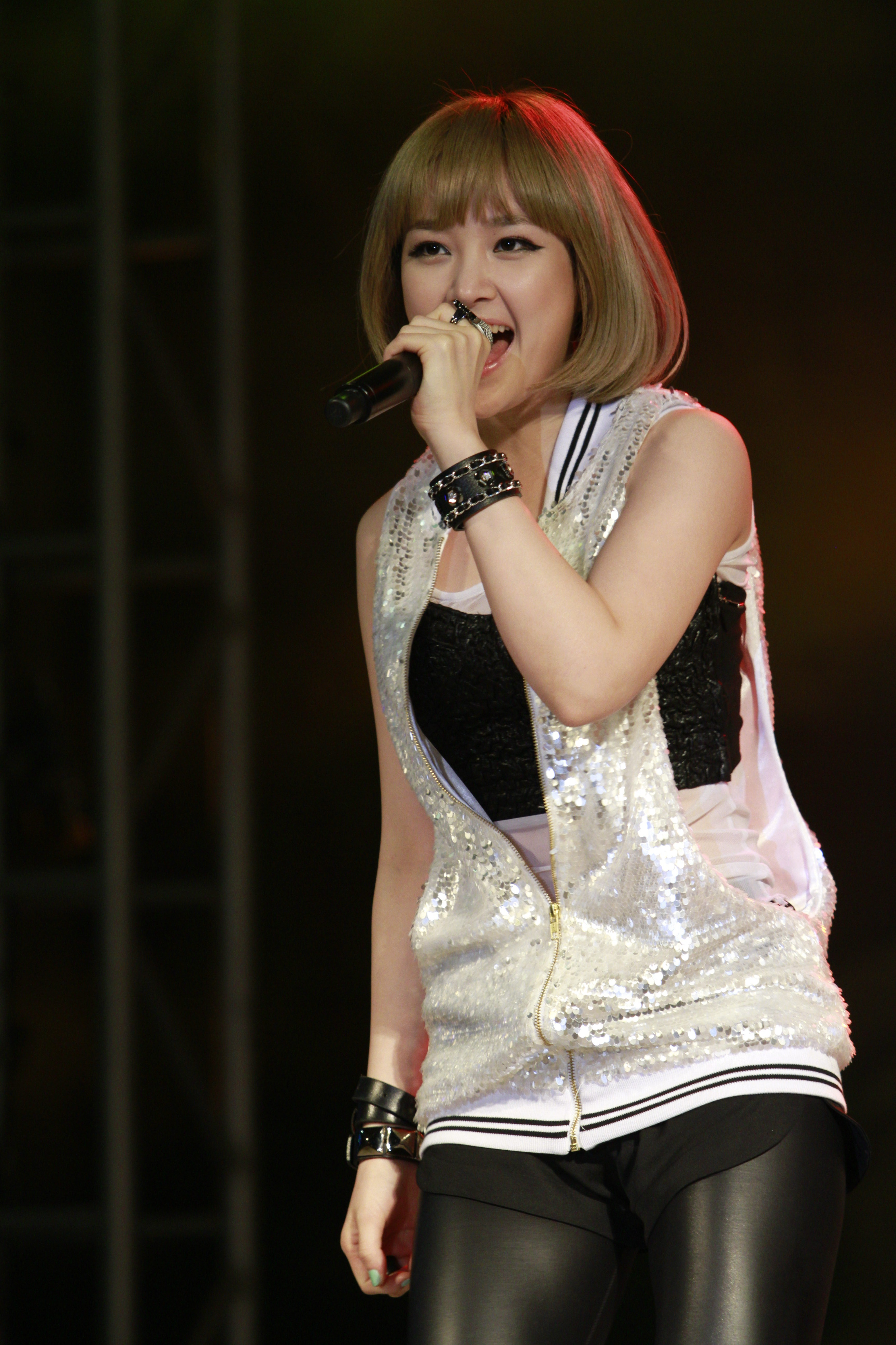 2012.05.04 Hwadojin Festival SPICA-Park Na Rae